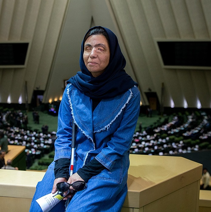 Iranian Acid Attacks victims in Iranian Parliament